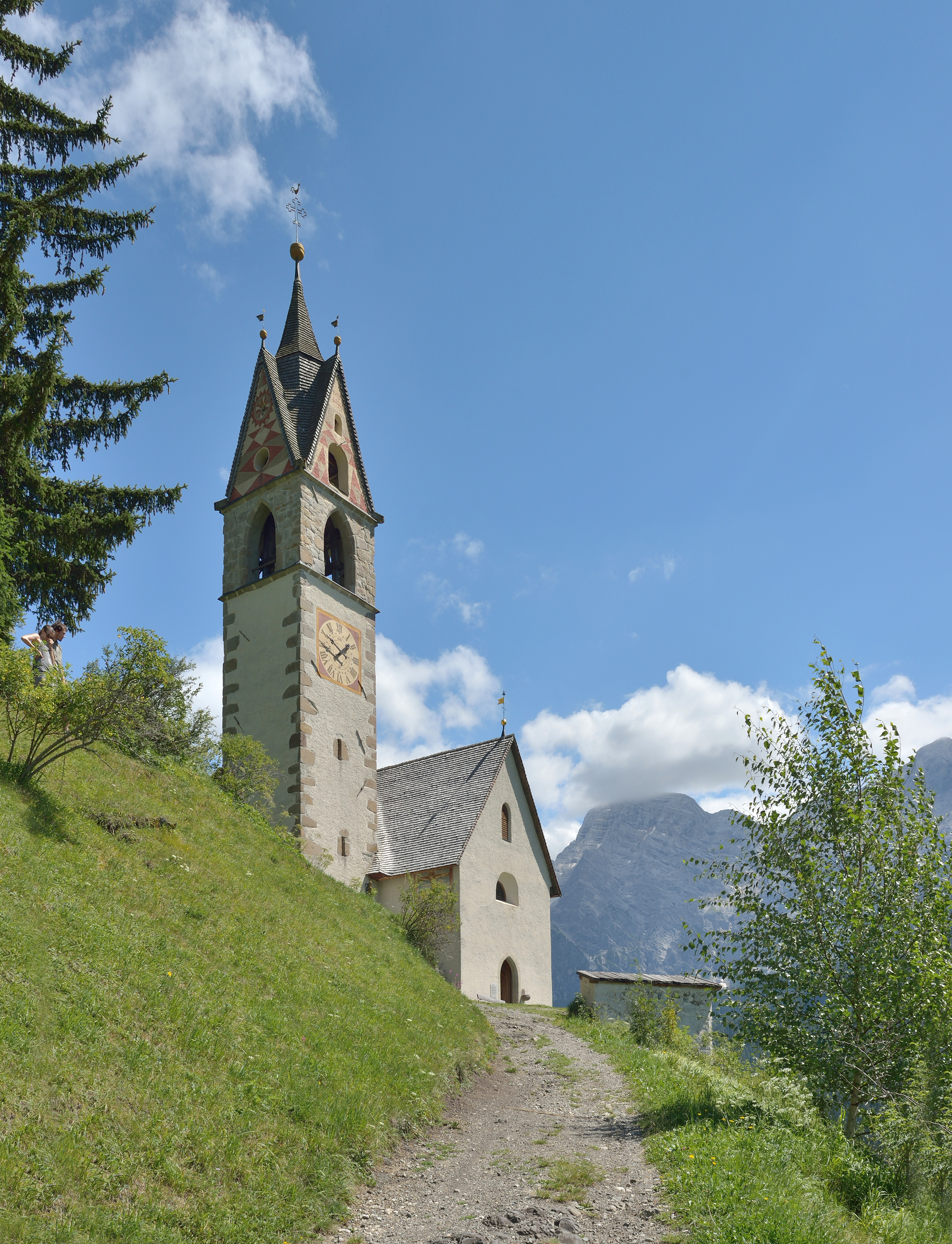 The Saint Barbara church in La Val